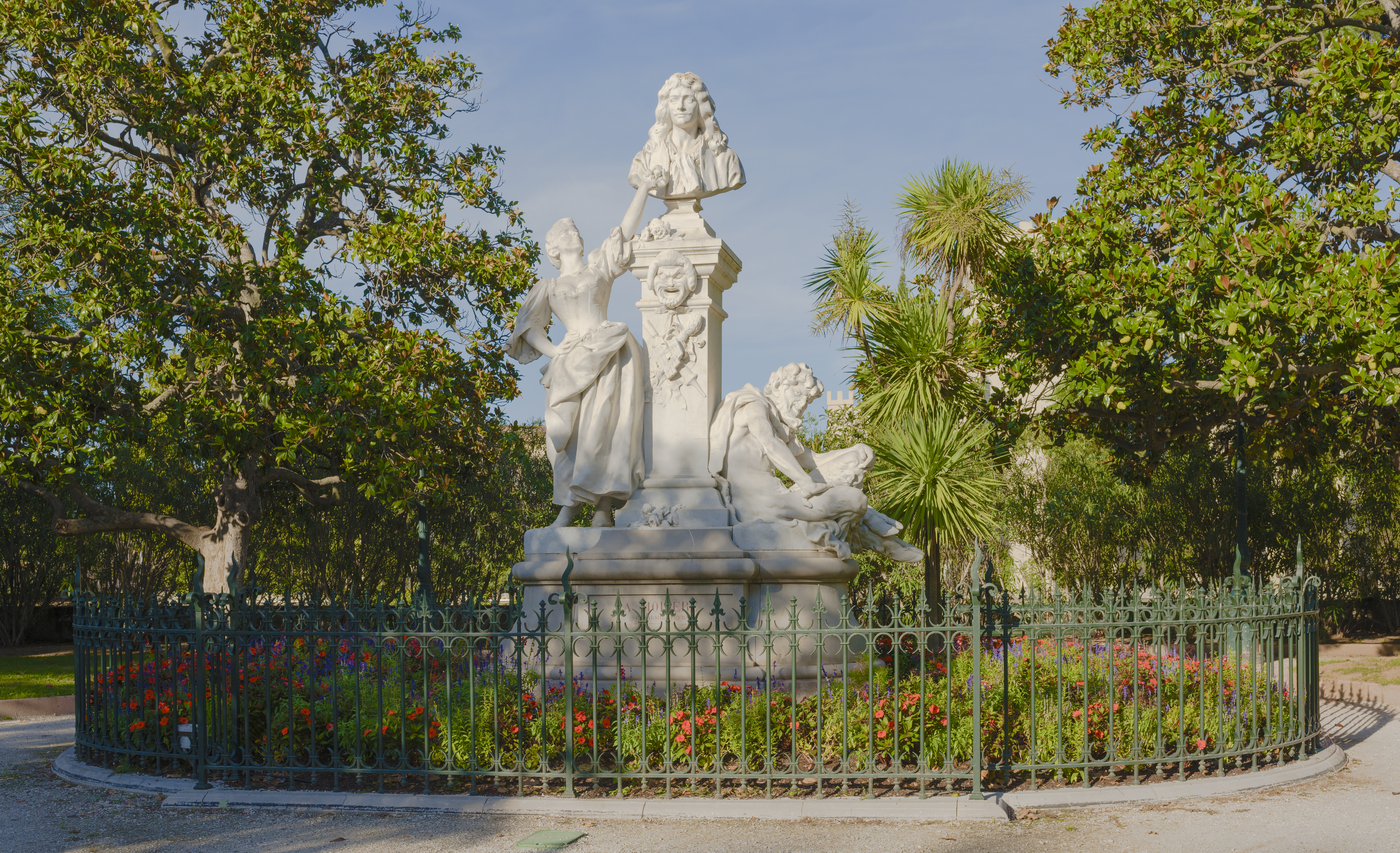 Monument for Molière (1897) - Sculpture by Injalbert. Pézenas, Hérault, France.